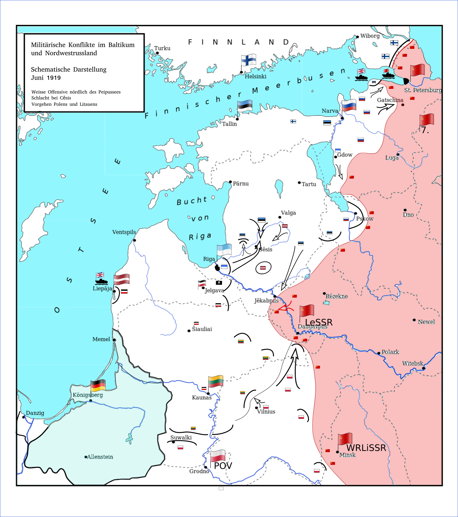 map of armed conflicts in the Baltics and North-West-Russia June 1919